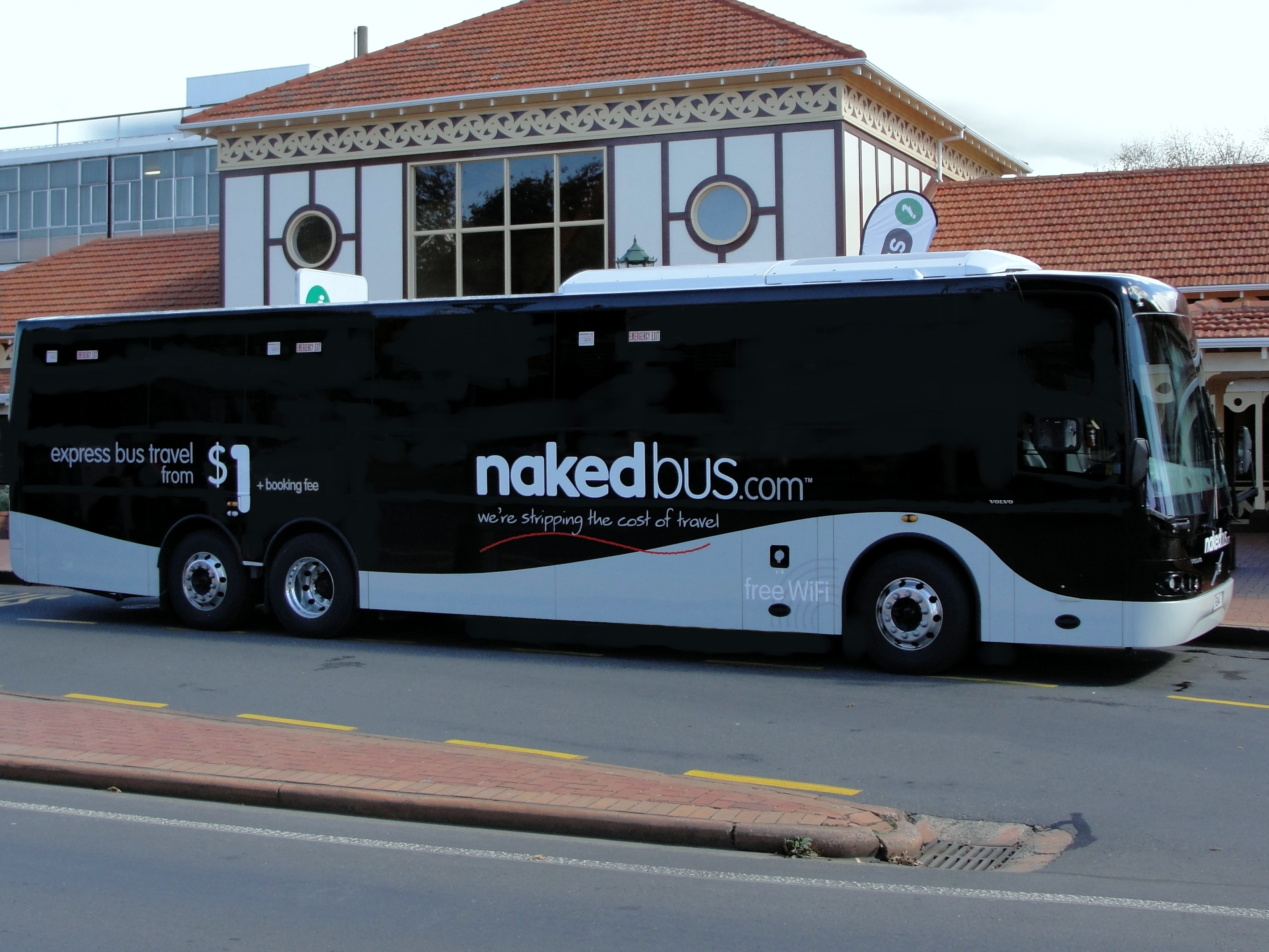 Reesby Buses #103 Volvo B11R with Kiwi Bus Builders bodywork in livery. Seen in Rotorua 23rd Apr 2014.